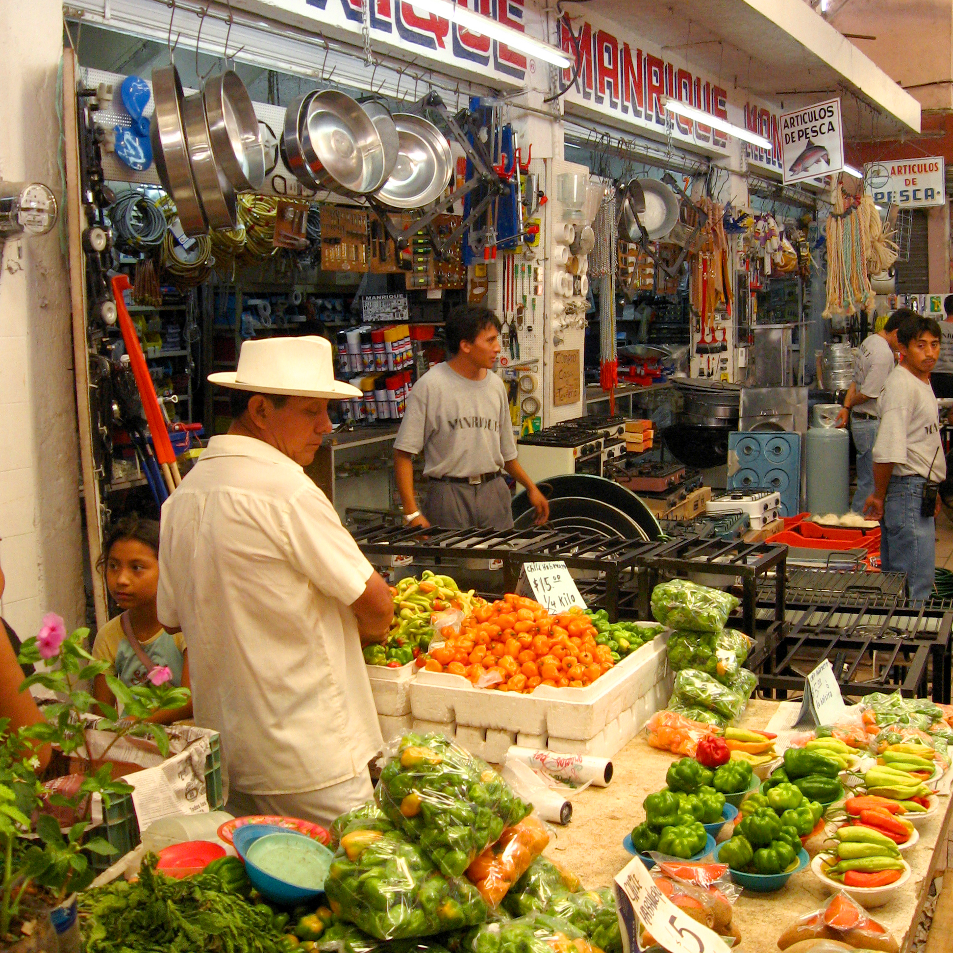 Mérida, Yucatán.